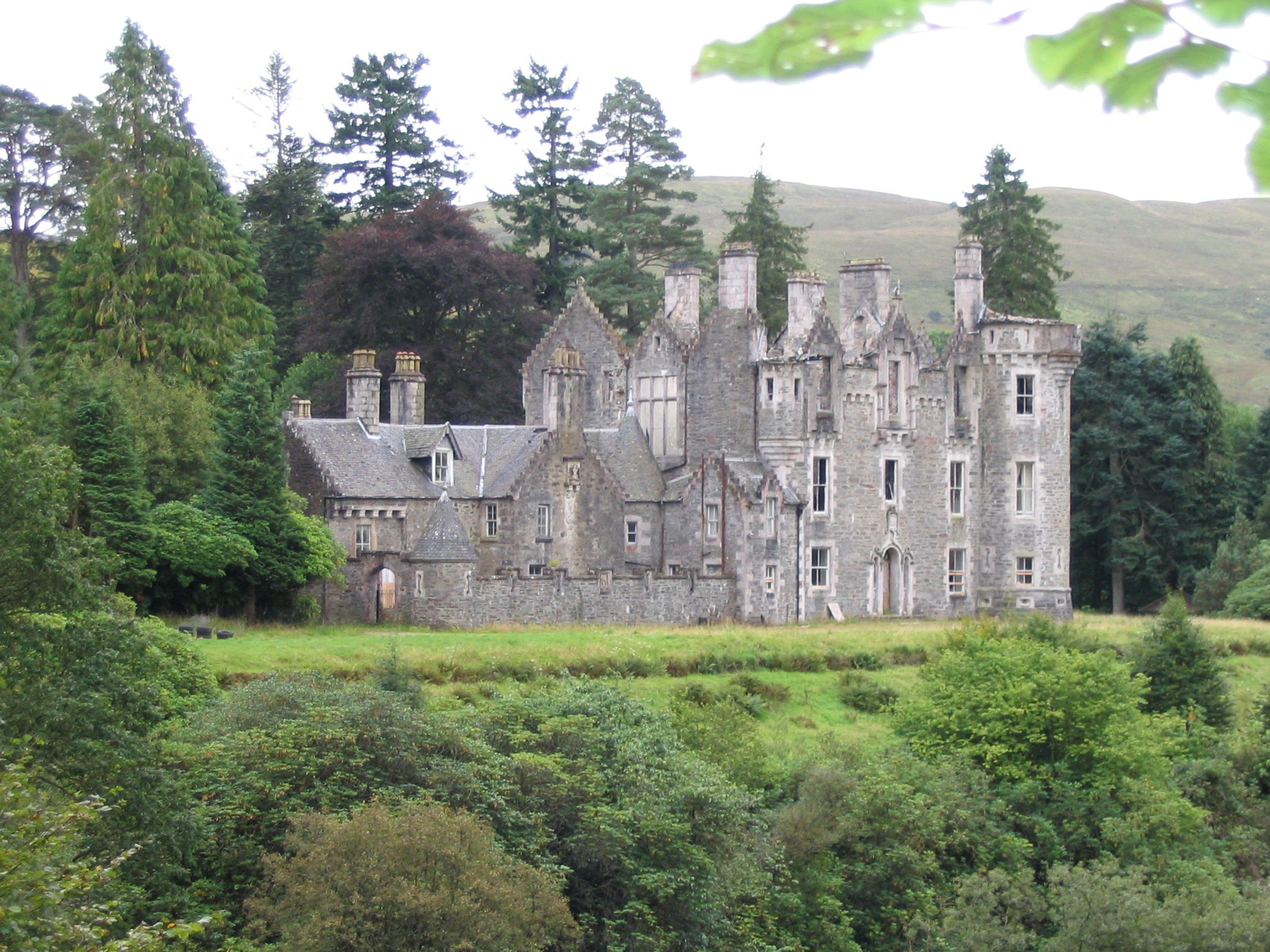 Photograph of Dunans Castle. I took this photograph.